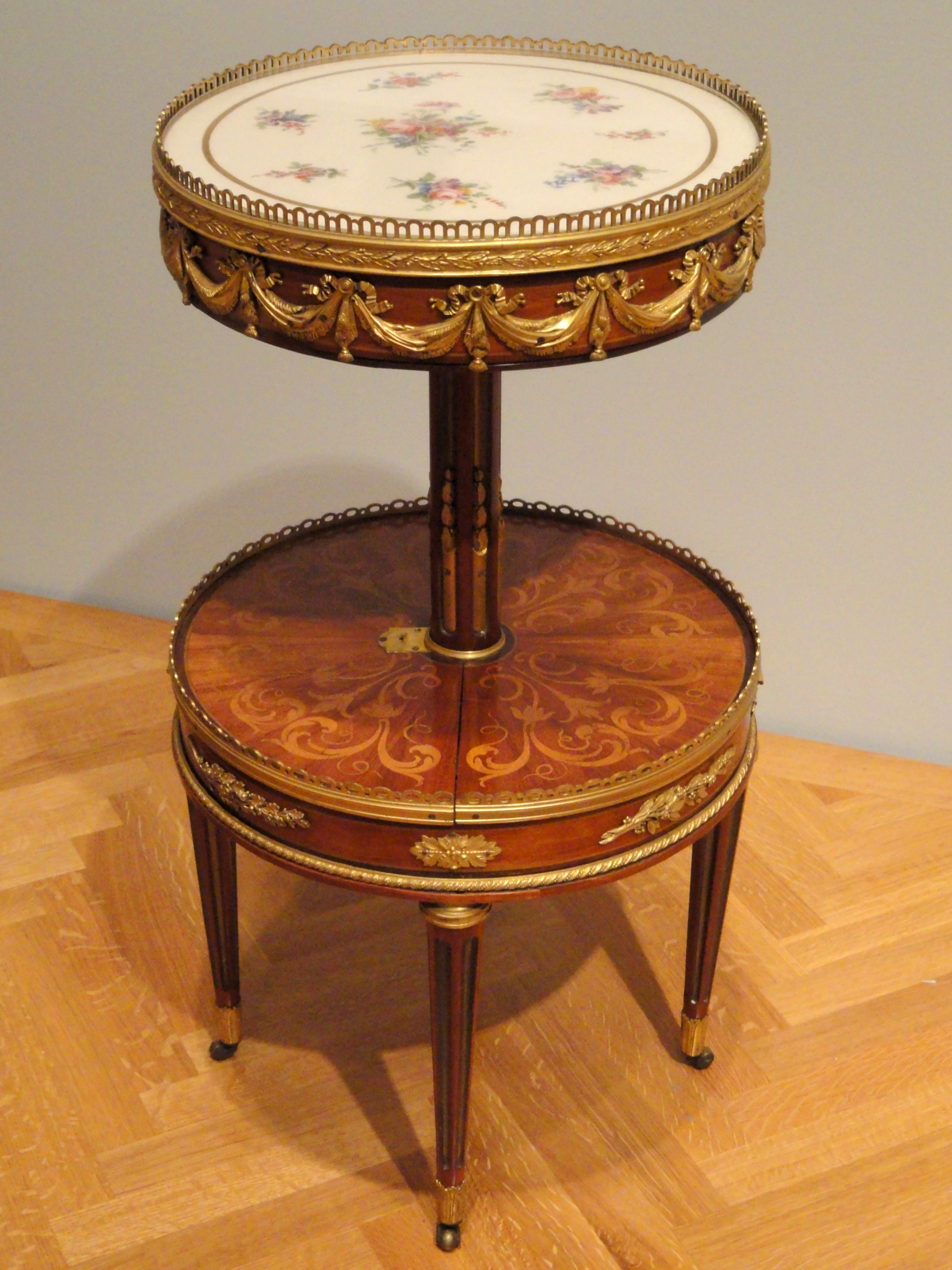 Exhibit in the Cleveland Museum of Art, Cleveland, Ohio, USA. This artwork is old enough so that it is in the public domain.